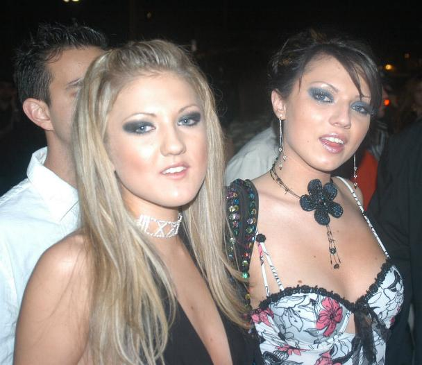 Mia Rose, Ava Rose at Video Team's Alexis Amore Party at Basque, February 4 2006